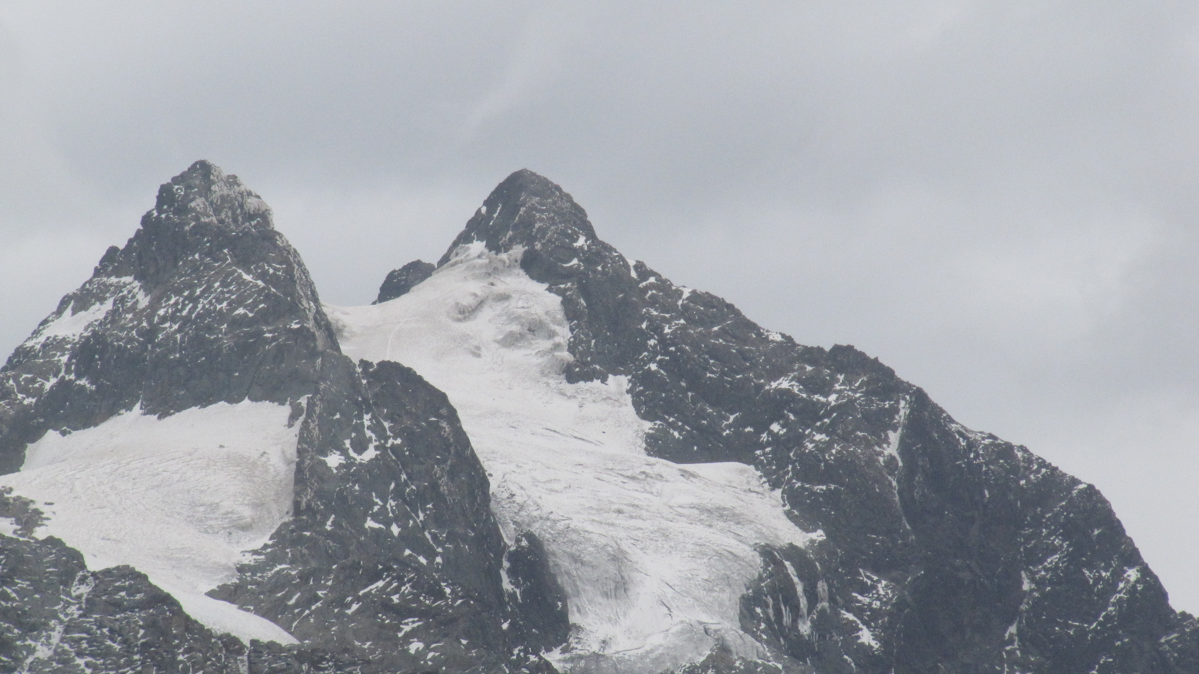 Mount Stanley with Alexandra Peak (left), Albert Peak (Summit in the background, middle), Margherita Peak (right) as well as Stanley Plateau Glacier (left) and Margherita Glacier (right)